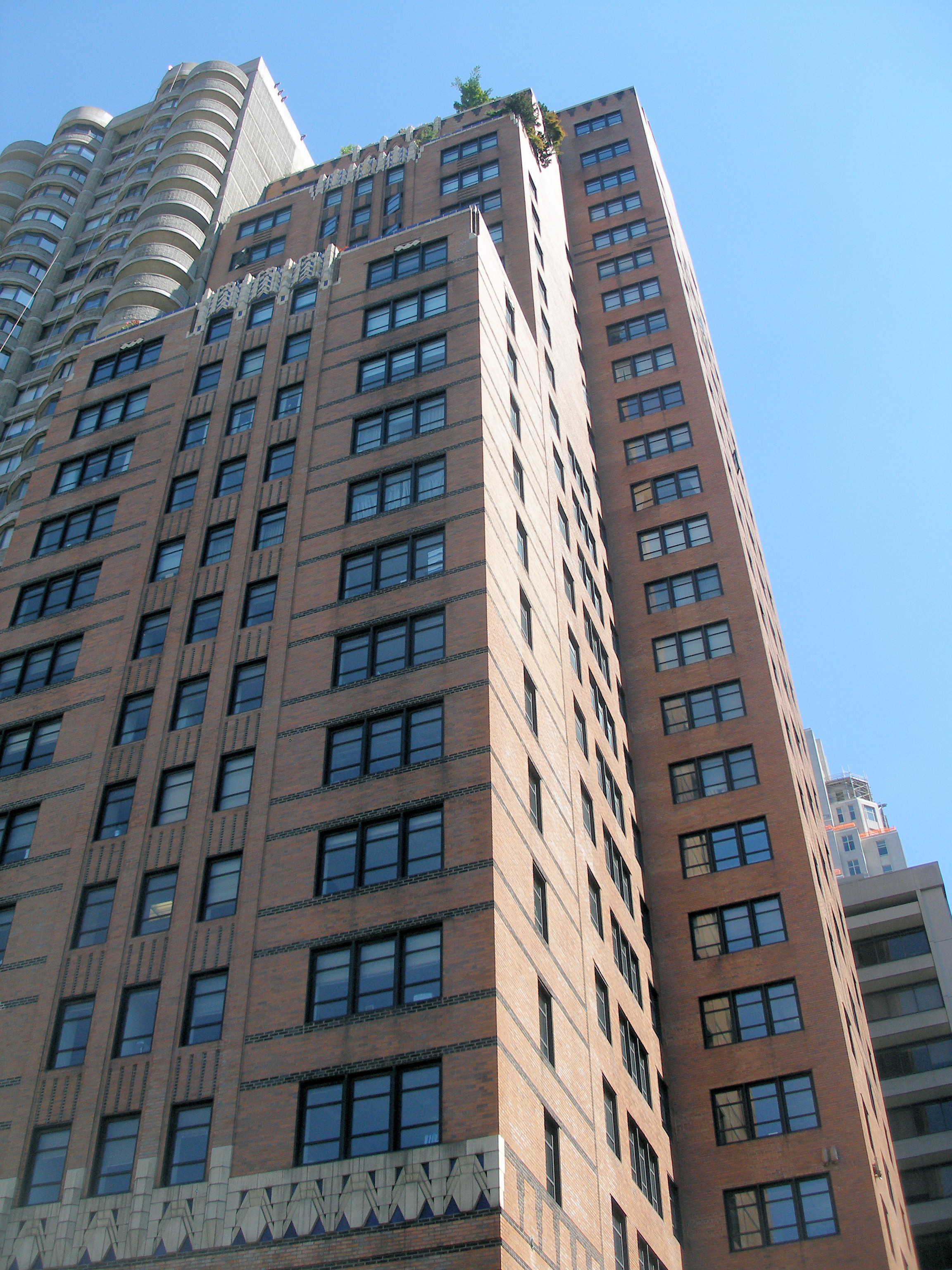 College Board headquarters at 45 Columbus Avenue in New York. See :commons:File:Kent automat park 43 W61 jeh.JPG for south side of this former lead location of Kent Automatic Garages. Photographed by user Coolcaesar on September 2, 2007.